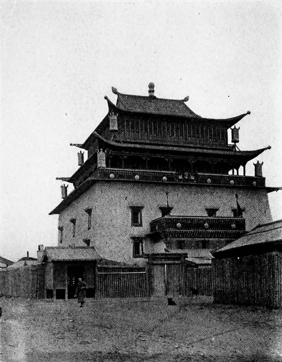 Photo from Across Mongolian Plains A Naturalist's Account of China's "Great Northwest"